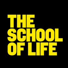 The School of Life